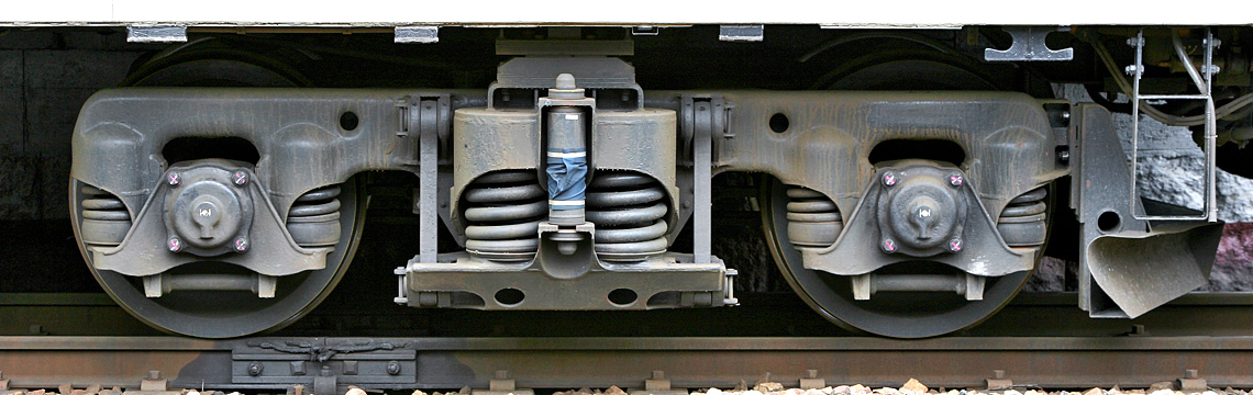 Type TR62 Bogie truck of JR West's JNR 113 series EMU (Kuha 111-7705).